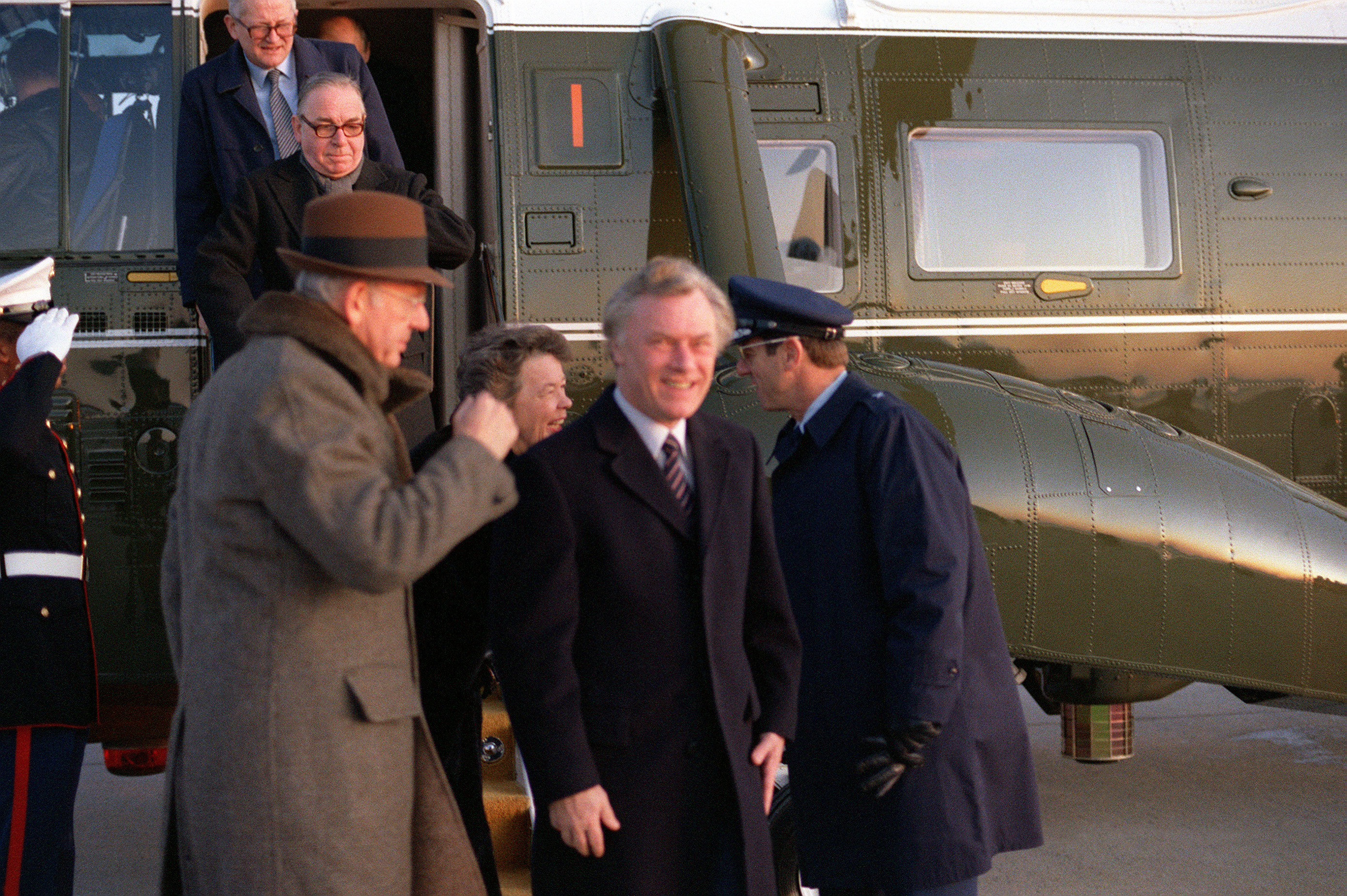 Prime Minister Poul Schlüter of Denmark departs at the conclusion of his visit, Andrews Air Force Base.